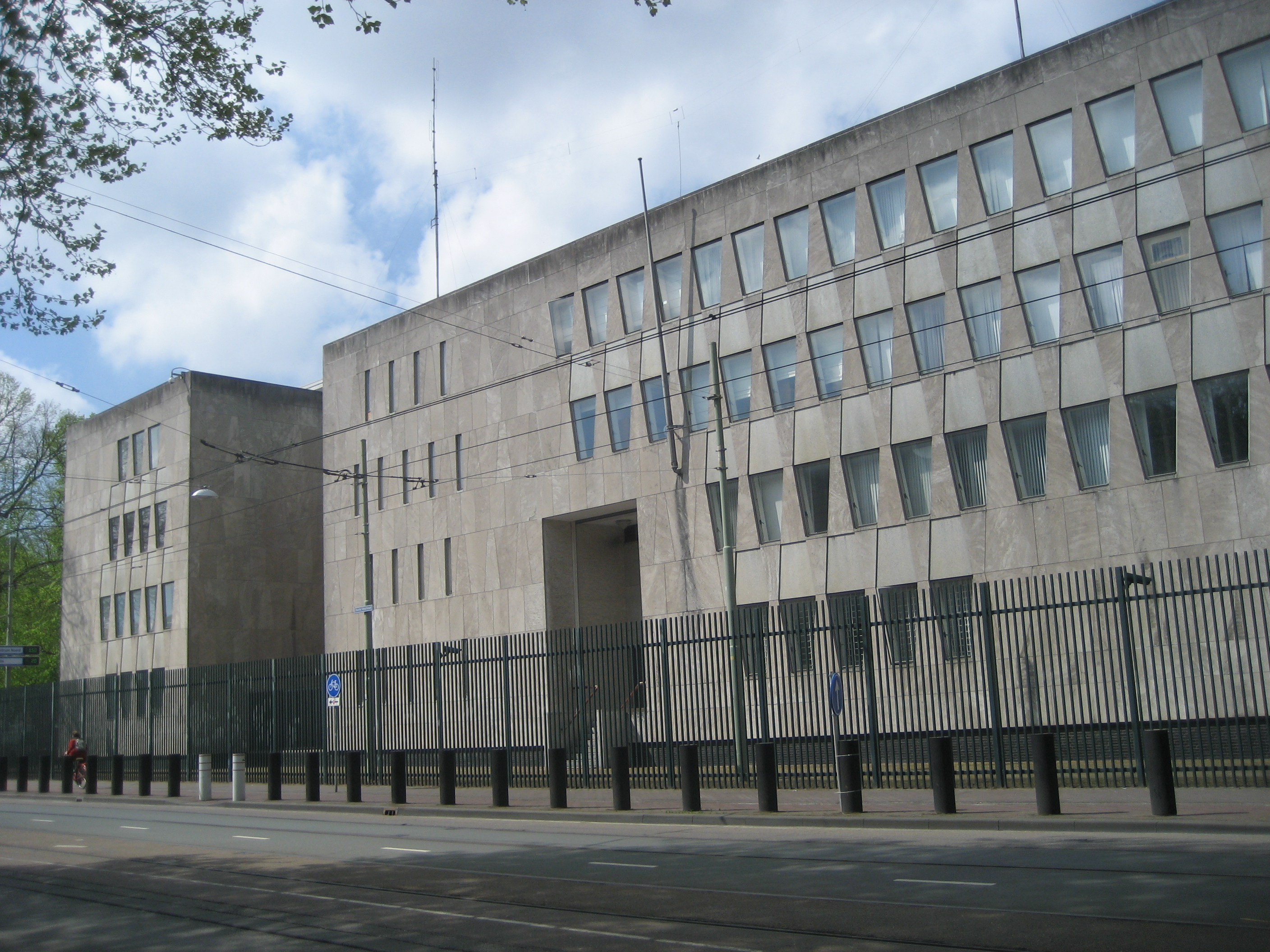 Its number in the list of 89 proposed monuments is: 2013-54 For more information see Dutch Wikipedia: 89 topmonumenten uit de periode 1959-1965